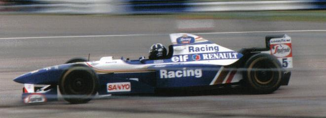 Damon Hill driving for WilliamsF1 at the 1995 British Grand Prix.